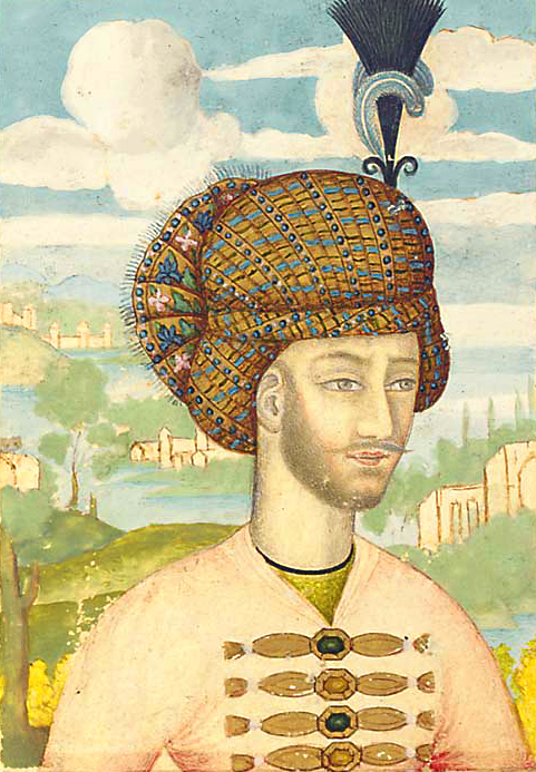 Shah Suleiman the Safavid